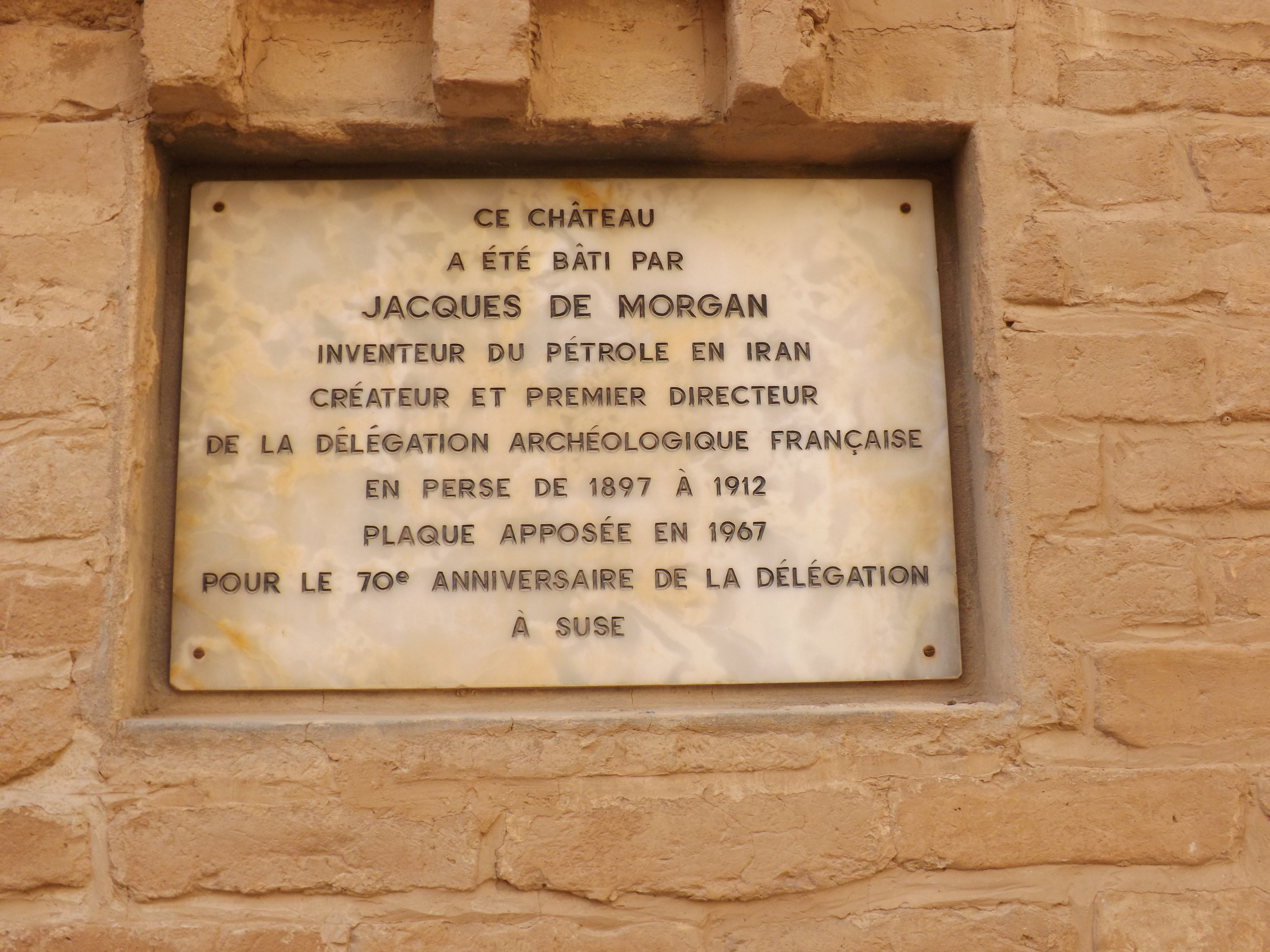 "This castle was built by Jacques De Morgan, dicoverer of oil in Iran. Founder and first director of the French archeological delegation in 1897-1912. Tha tablet was opened in 1967 for the 70th anniversary of French delegation in Susa"